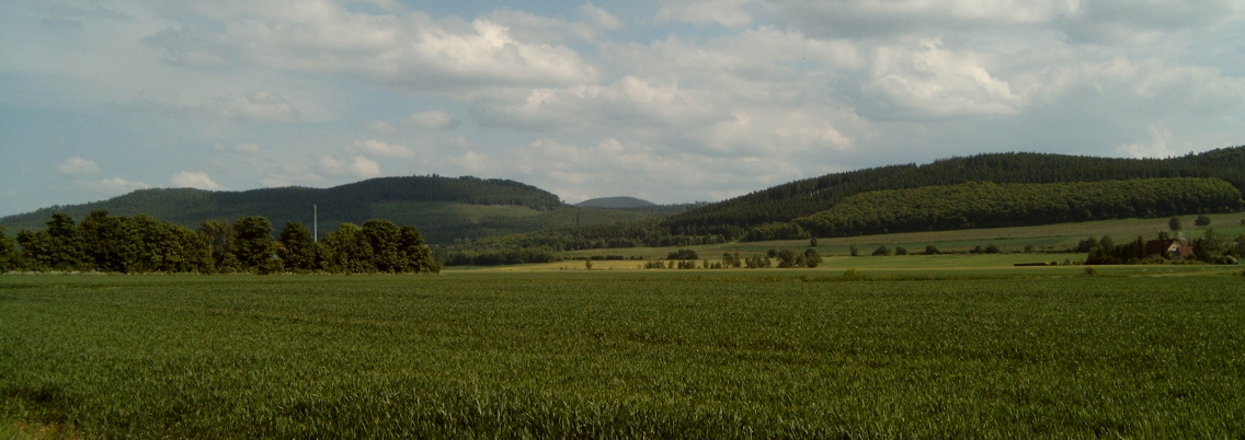 "Harz" near "Astfeld"